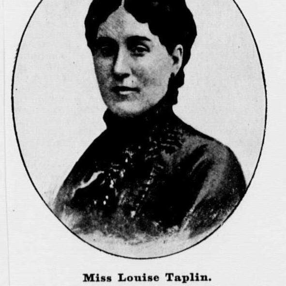 Matron of The Infants' Home